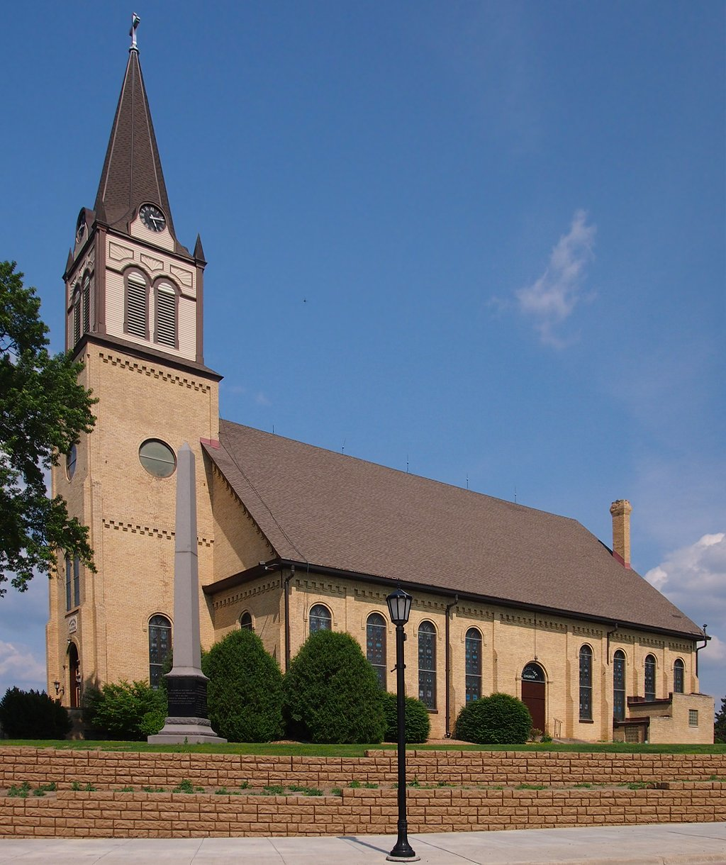 Center City, Minnesota, USA. Contributing property to Center City Historic District.